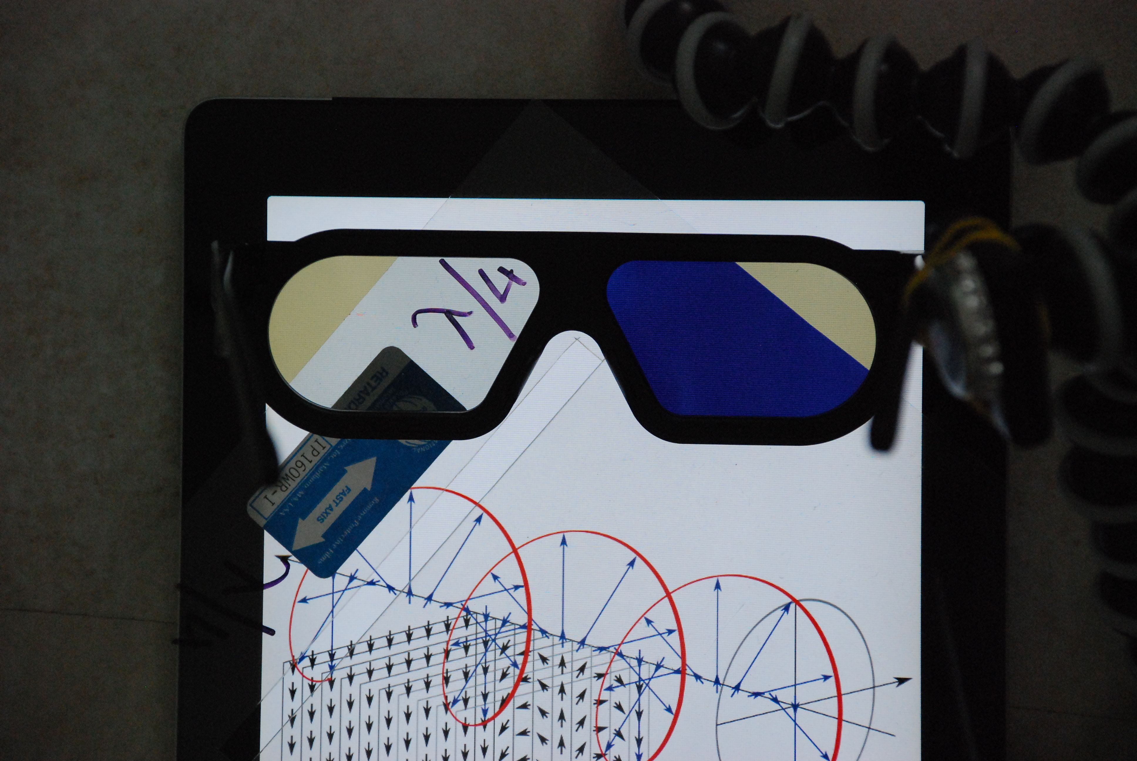 Cinema glasses for a 3D movie (master Image) detect the helicity of circularly polarized light, which is produced here by quarter-wave retarder sheet (International Polarizer IP160WR-I) with its fast axis at an angle of 45 degrees on top of the LCD screen of an iPad 2; the background image is File:Circular.Polarization.Circularly.Polarized.Light plane.wave Right.Handed.svg (PD by User:Dave3457).